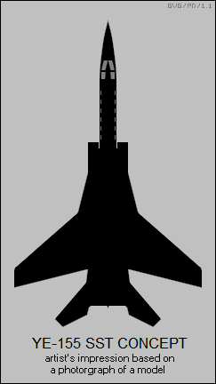 Plan-view silhouette of the Mikoyan-Gurevich Ye-155 based supersonic transport concept